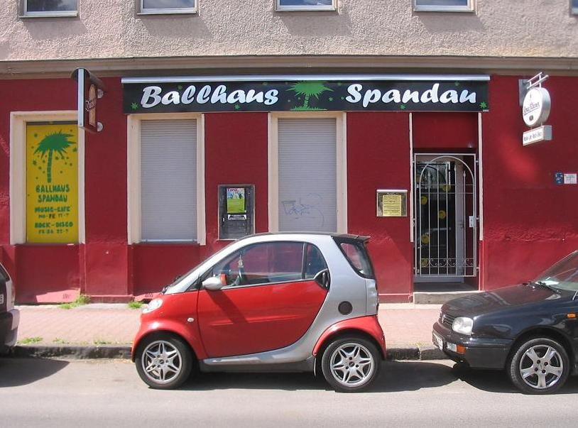 Listed Ballhaus Spandau (ballroom) in Tiefwerder. Tiefwerder is a former village, founded in 1816, in Berlin-Spandau and an ait in Berlin-Wilhelmstadt from river Havel. The Tiefwerder Wiesen (meadows) are a protected area (german: Landschaftsschutzgebiet) and Berlins last natural flood plain and last spawn-area for the Northern pike.